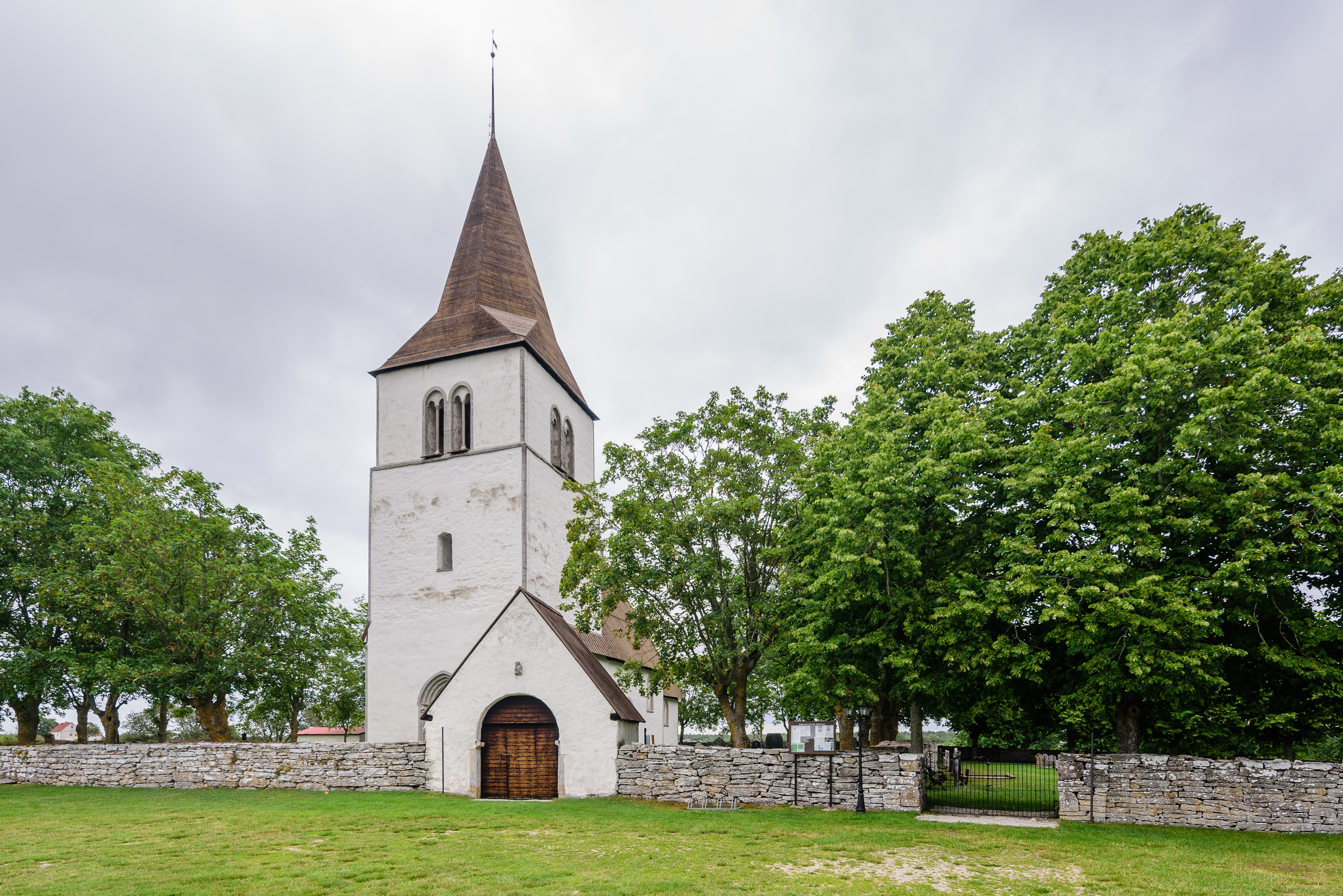 Fleringe kyrka (church) in Fleringe, Gotland. Built in the 13th century.